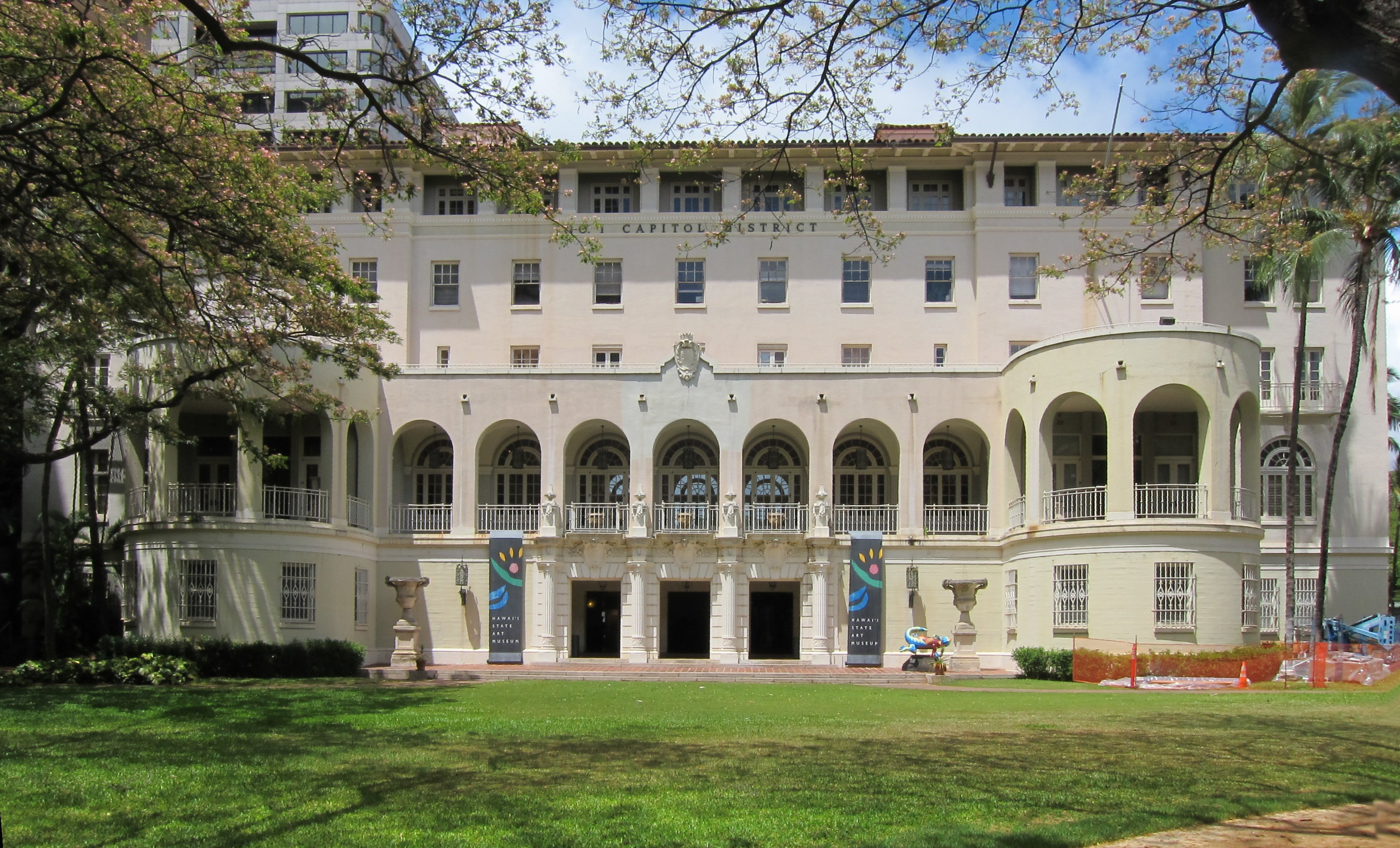 The Armed Services YMCA — No. 1 Capitol District Building (1928), in Honolulu, Hawaii. Present day home of the Hawaii State Art Museum. Contributing property in the Hawaii Capital Historic District